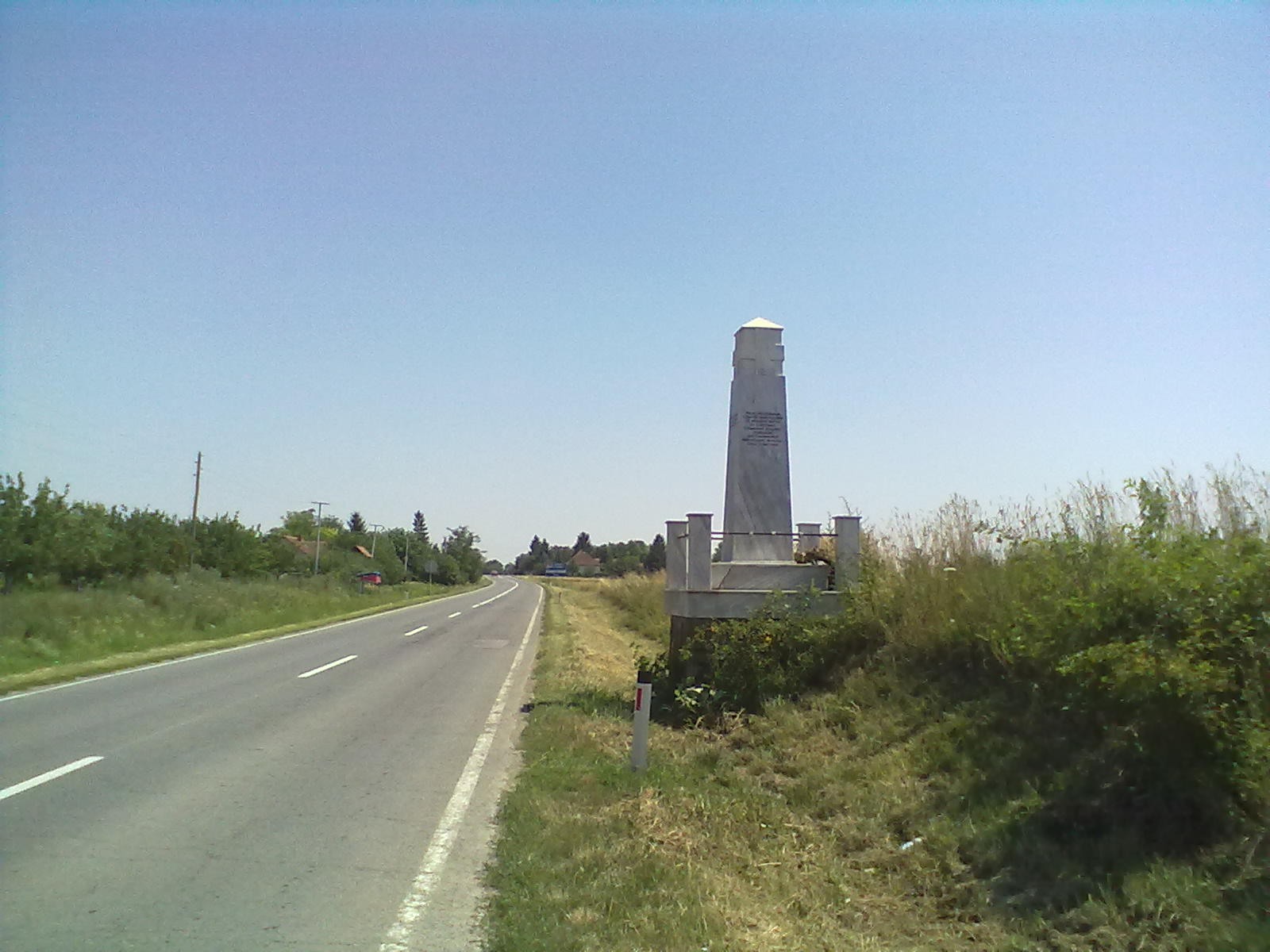 Memorial of the Battle of Kaponja Споменик код Капоње (на путу Сомбор—Суботица) подигнут поводом 150. годишњице Револуције 1848/49.